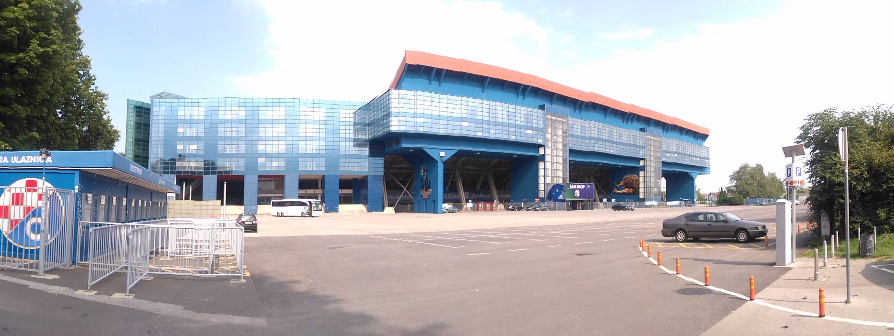 Maksimir Stadium; its western side